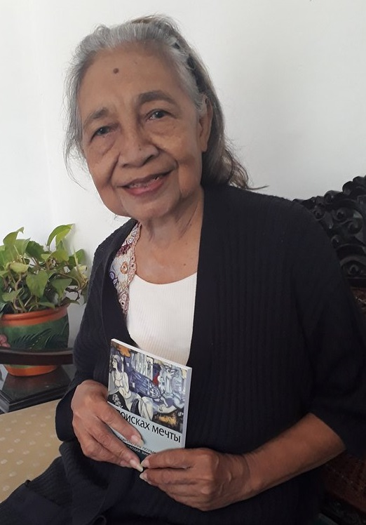 Indonesian poetess Diah Hadaning